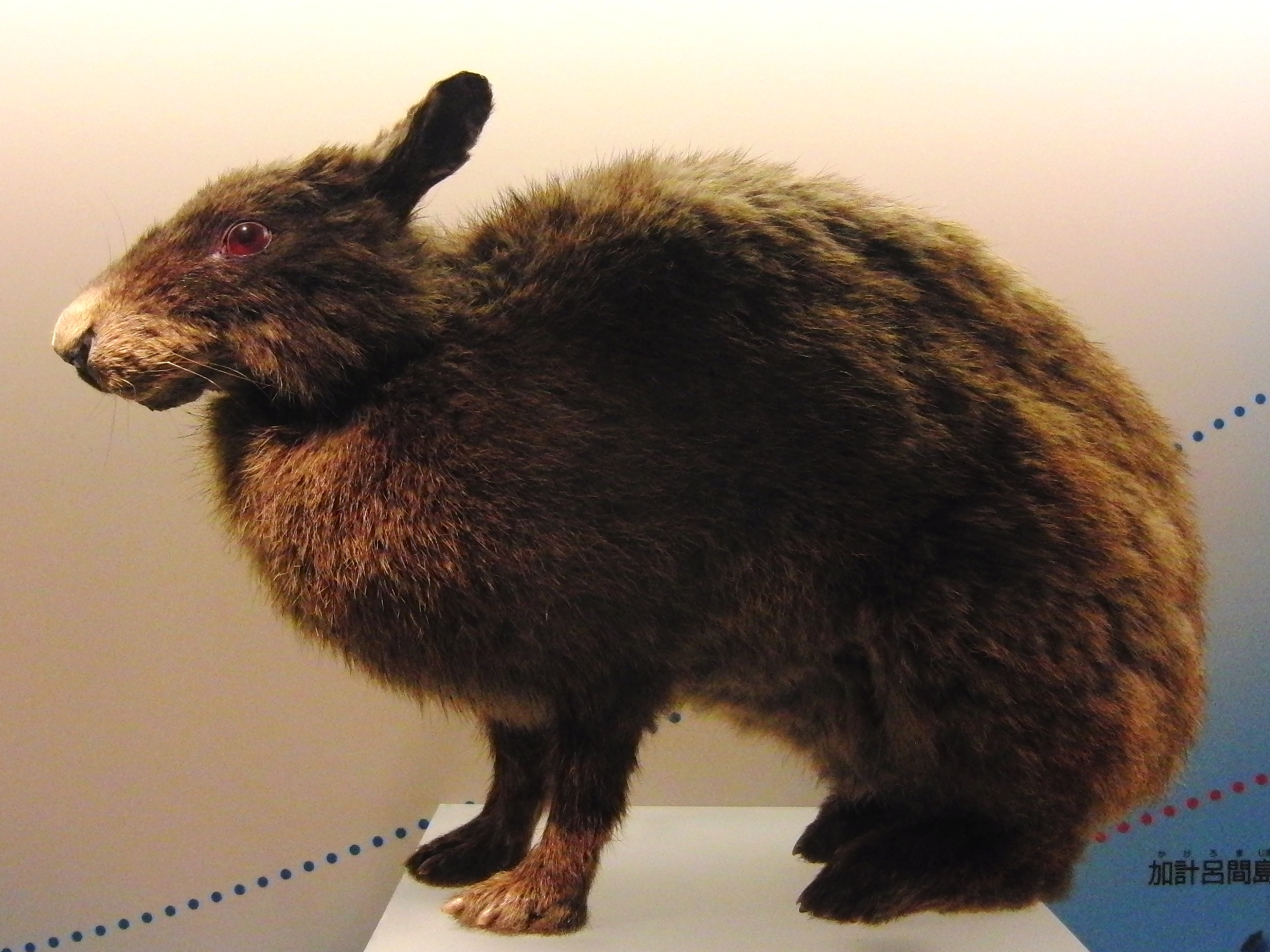 Stuffed specimen of Amami rabbit (Pentalagus furnessi). Exhibit in the National Museum of Nature and Science, Tokyo, Japan.